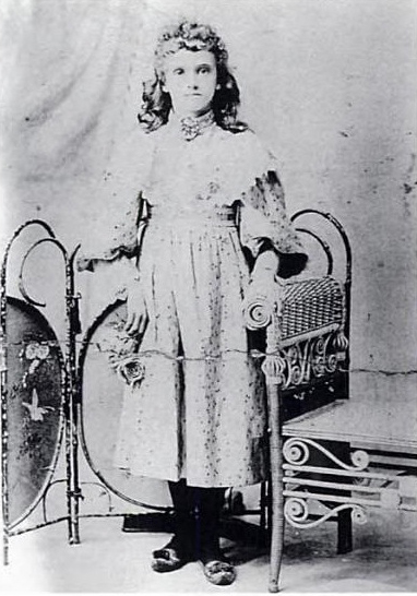 C. 1863 photograph of Mary Alice "Allie" Smith at the Greenfield Indiana home of James Whitcomb Riley. Smith is the inspiration for the character "Little Orphant Annie", described in Whitcomb's 1885 poem of the same name.